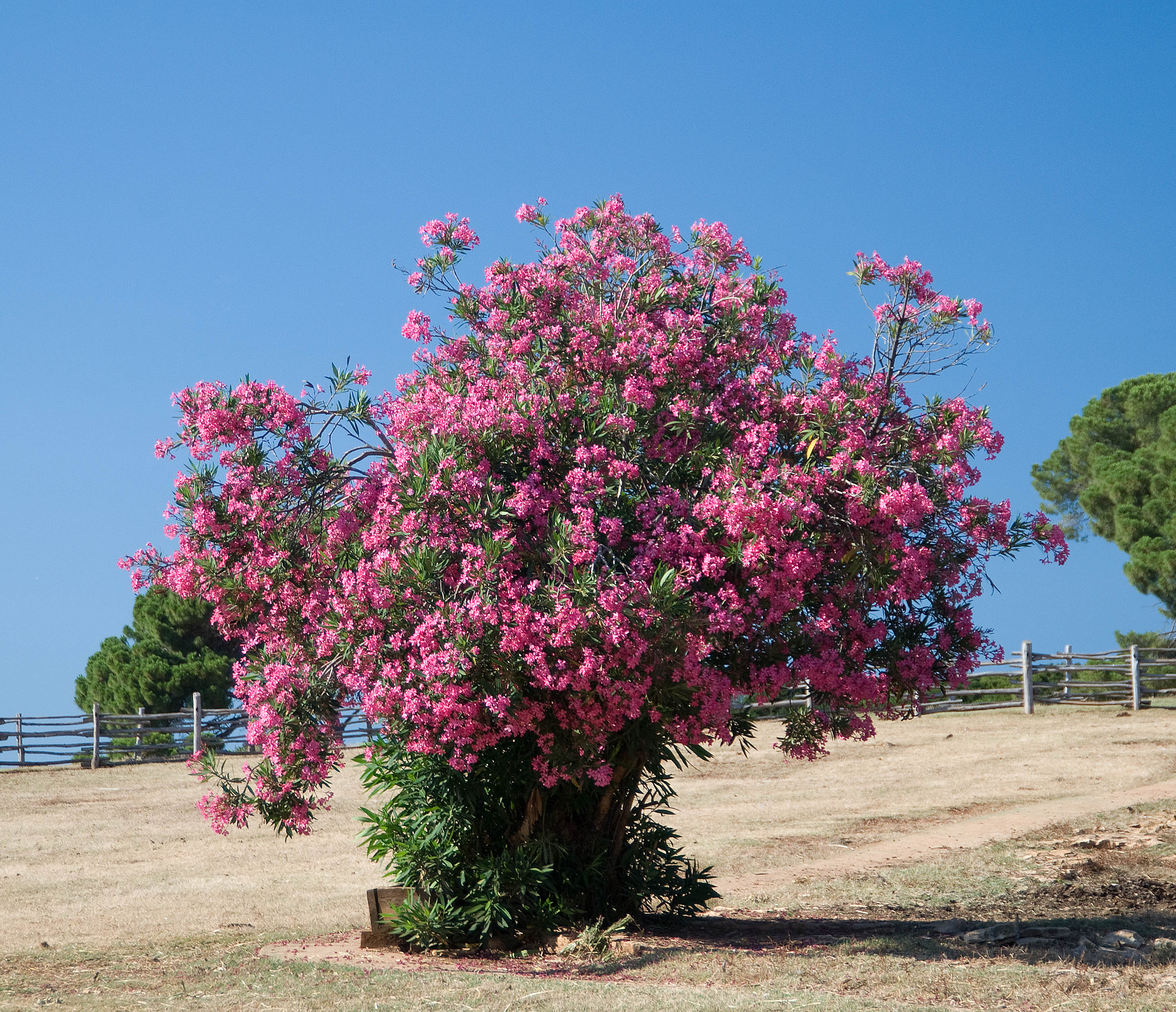 Nerium oleander tree, shot at Brioni islands, Croatia